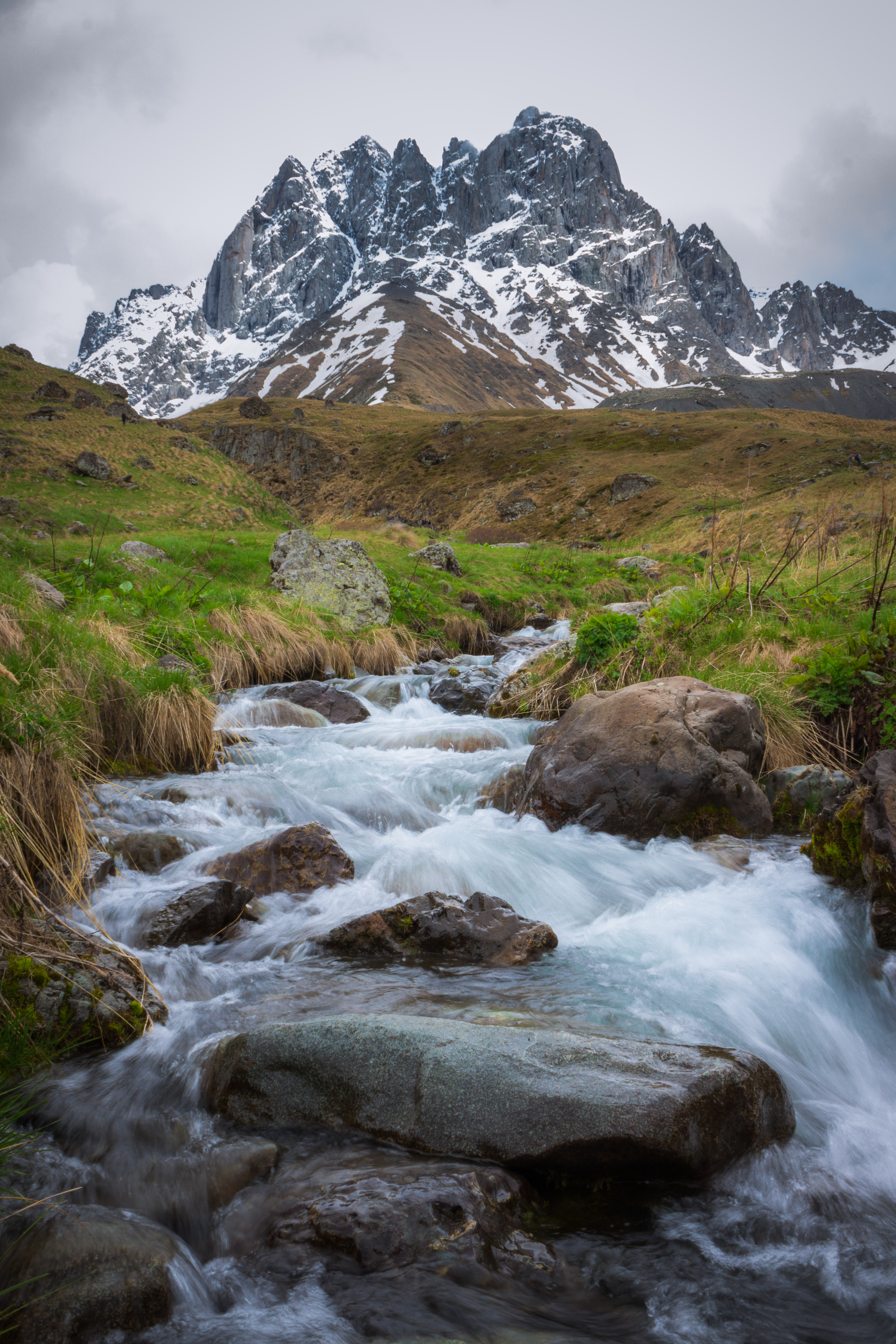 This image was taken at the small spring near the main massif.